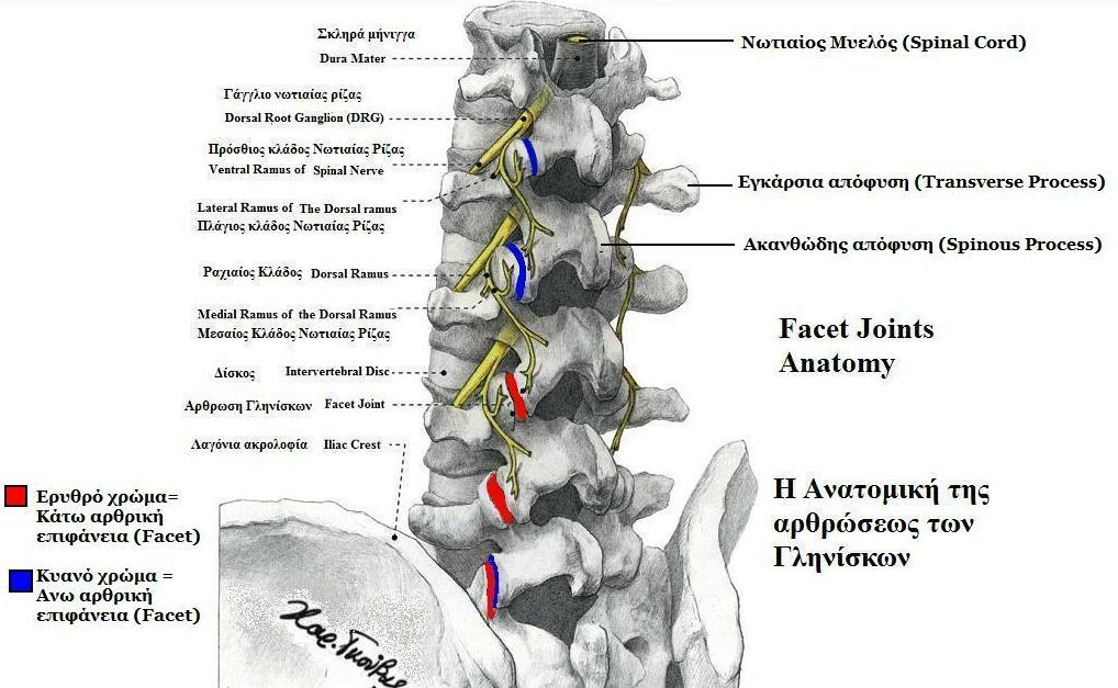 Facet Joints Anatomy